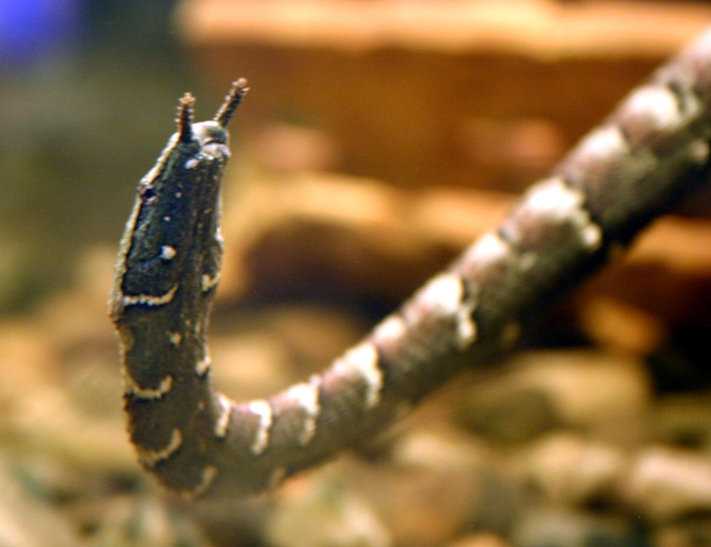 Tentacled Snake (Erpeton tentaculatum)